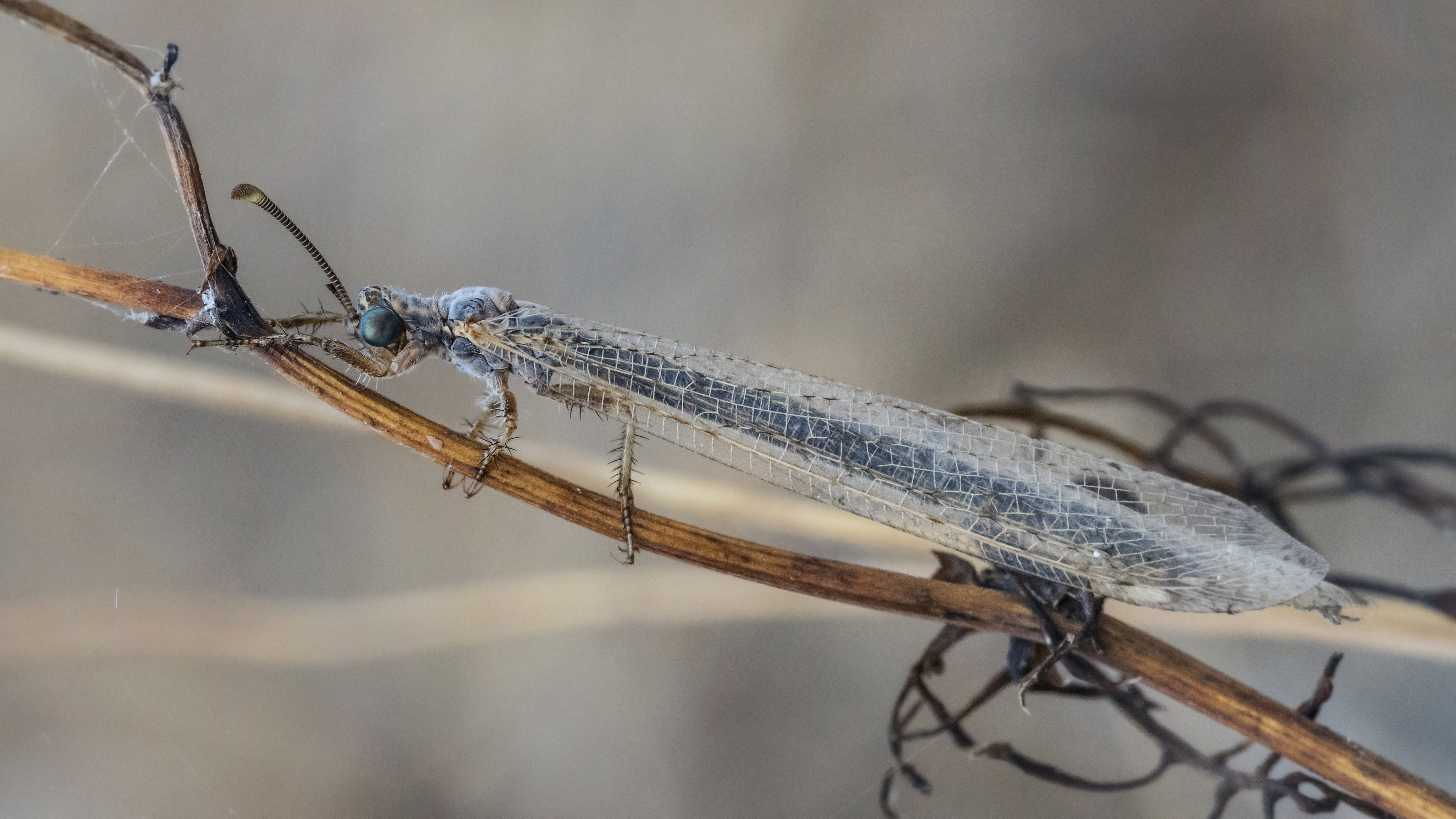 Distoleon tetragrammicus. Lido de Thau, Sète, Hérault, France